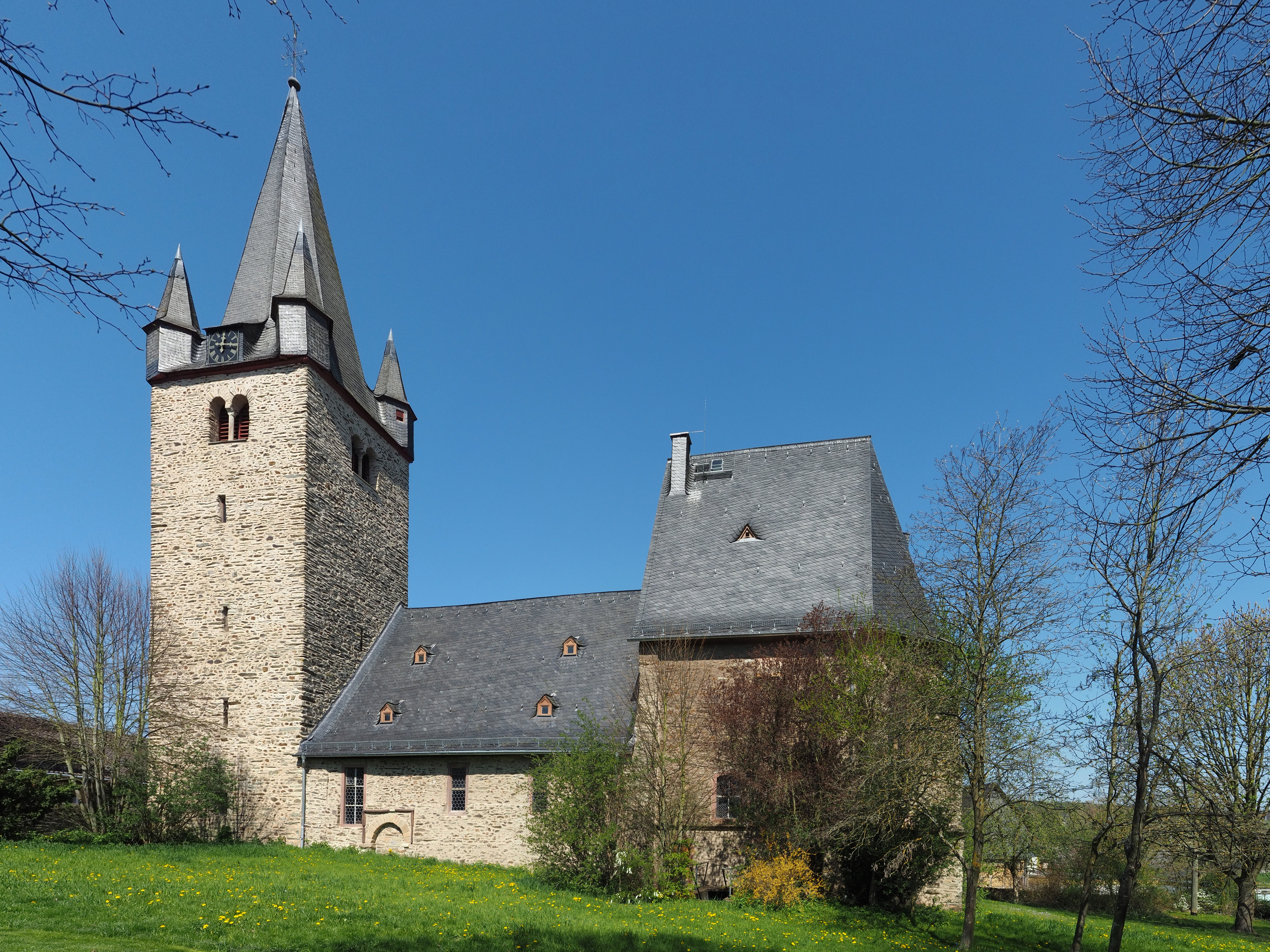 Protestant church of Breithardt, Hohenstein, Hesse, Germany